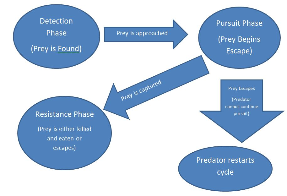 Diagram showing phases of pursuit predation and order in which they are performed by predators.